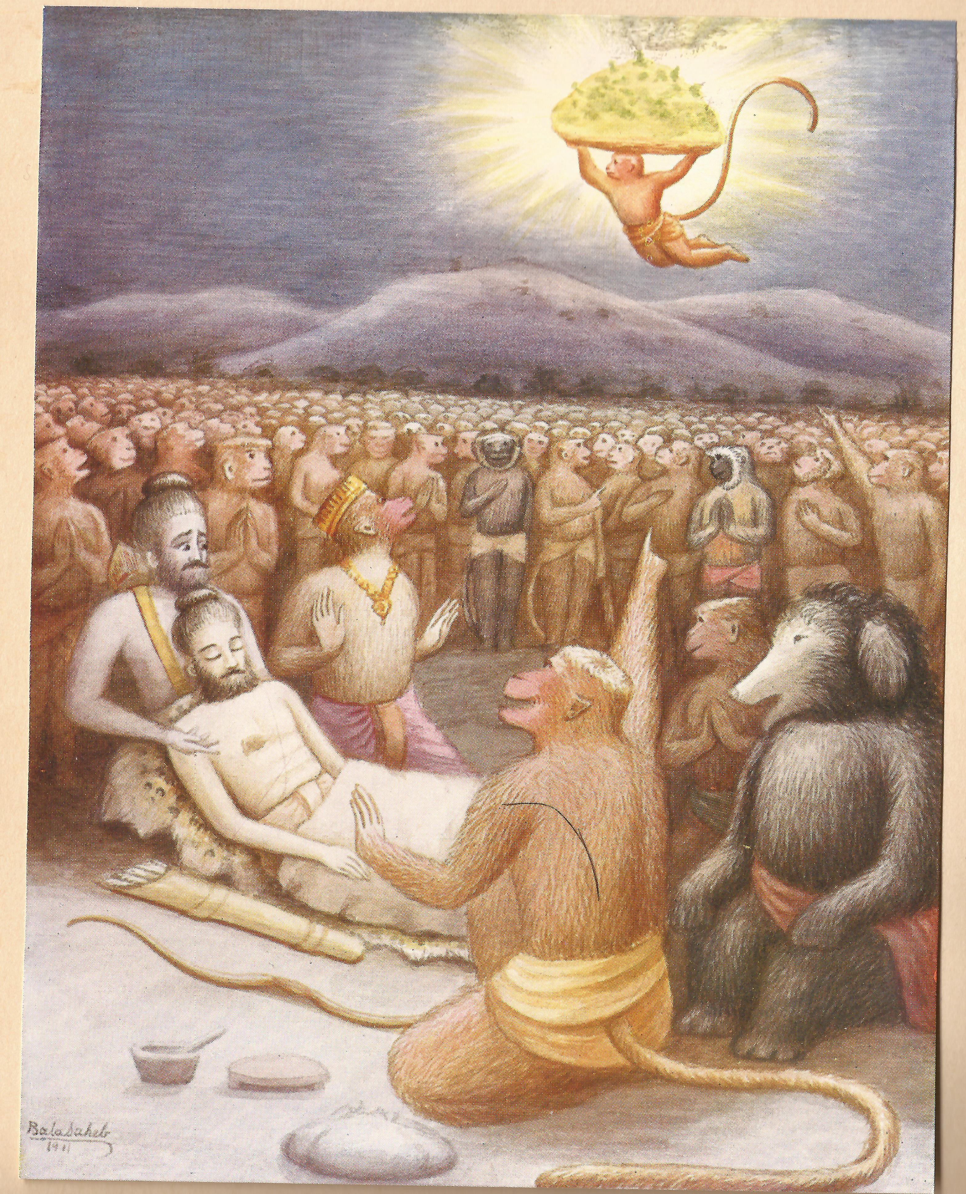 The Picture Ramayana - by Balasaheb Pant published c. 1916-1924